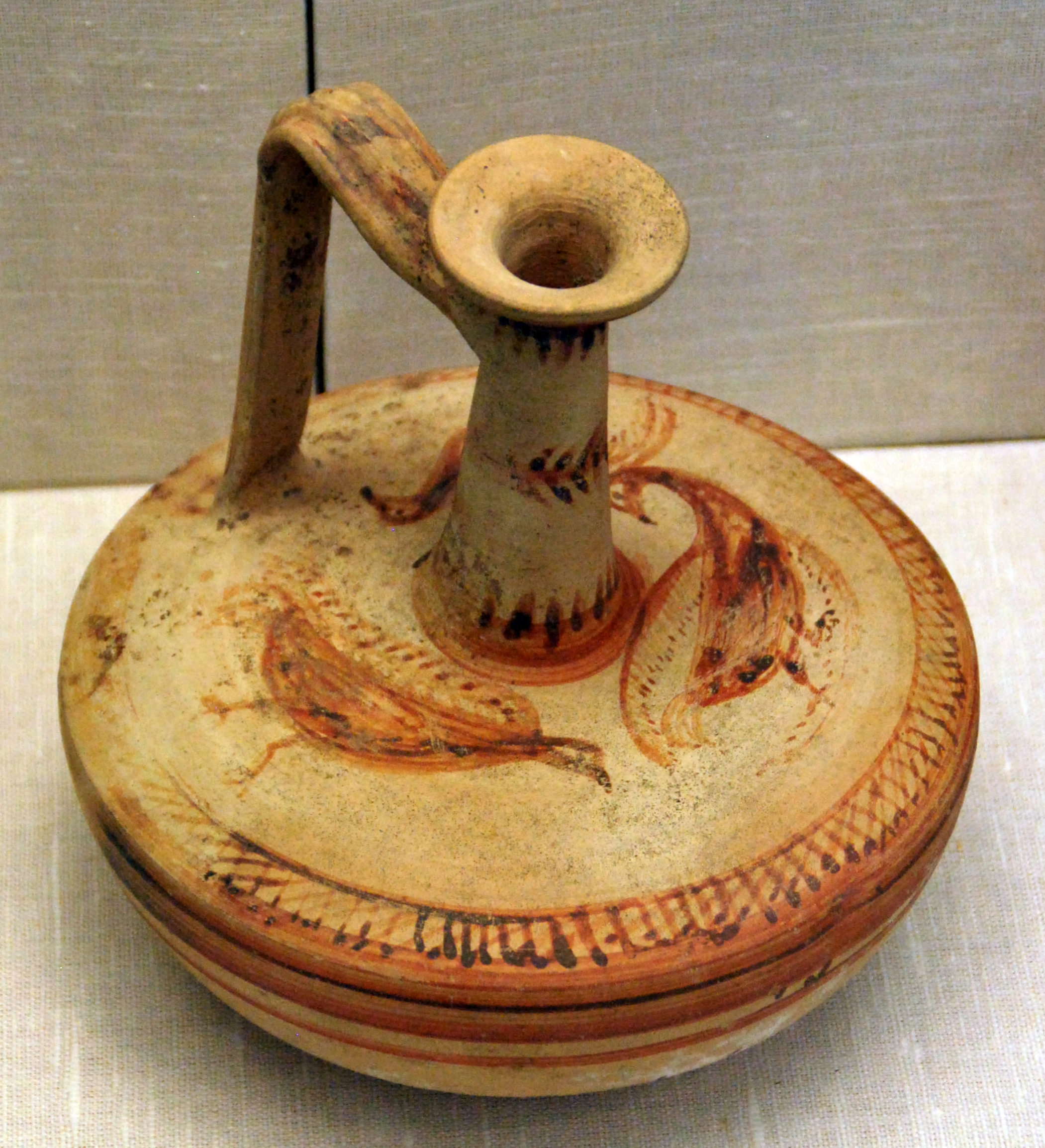 Ancient greek Skyphos possebly from Cyprus depicting birds. 2nd half 2ndcentury BC. Antikensammlung Kiel, inventory number B 919.